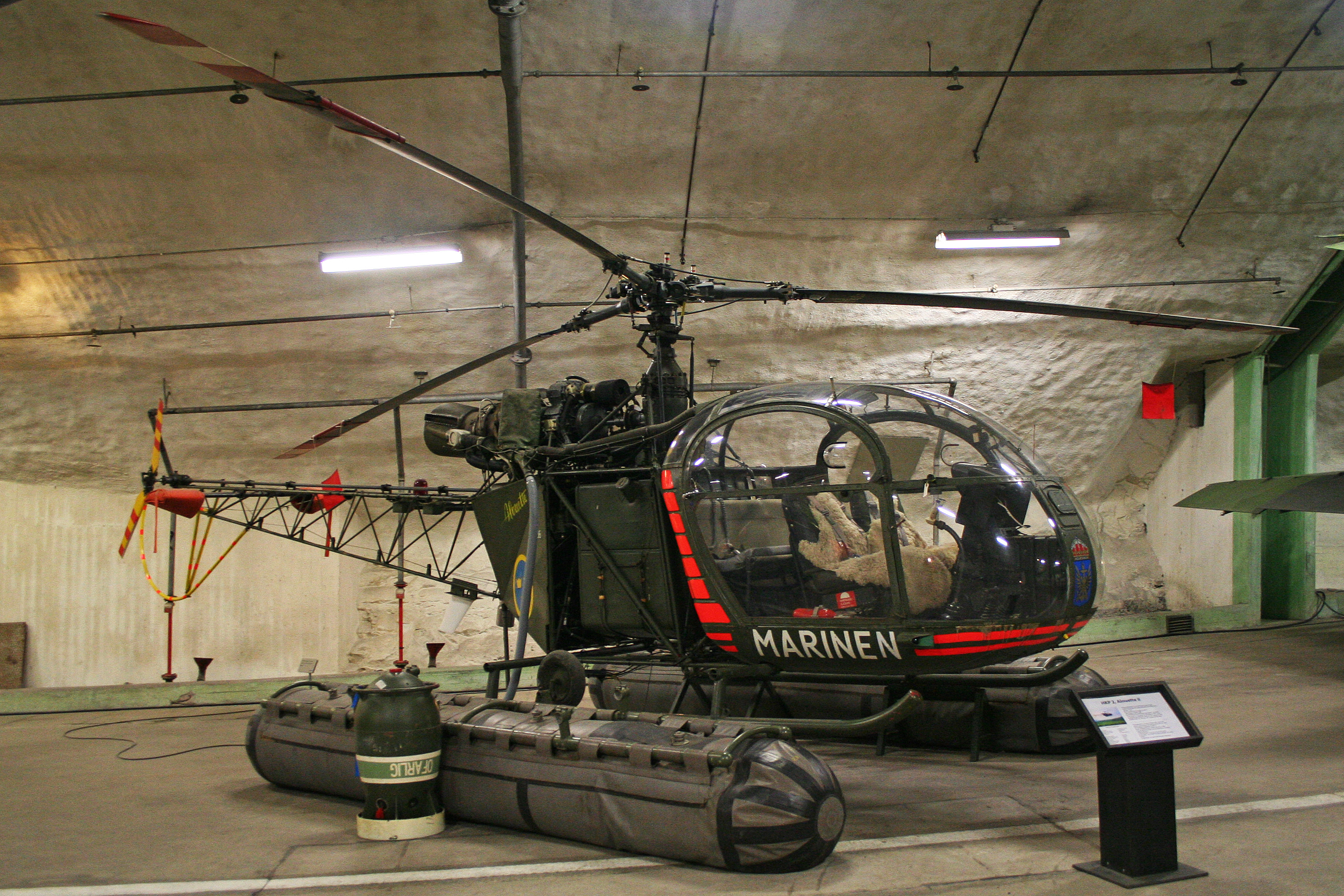 msn 1246, l/n C101. Displayed in the entrance tunnel. The Aeroseum, Gothenburg Save, 02-6-2012